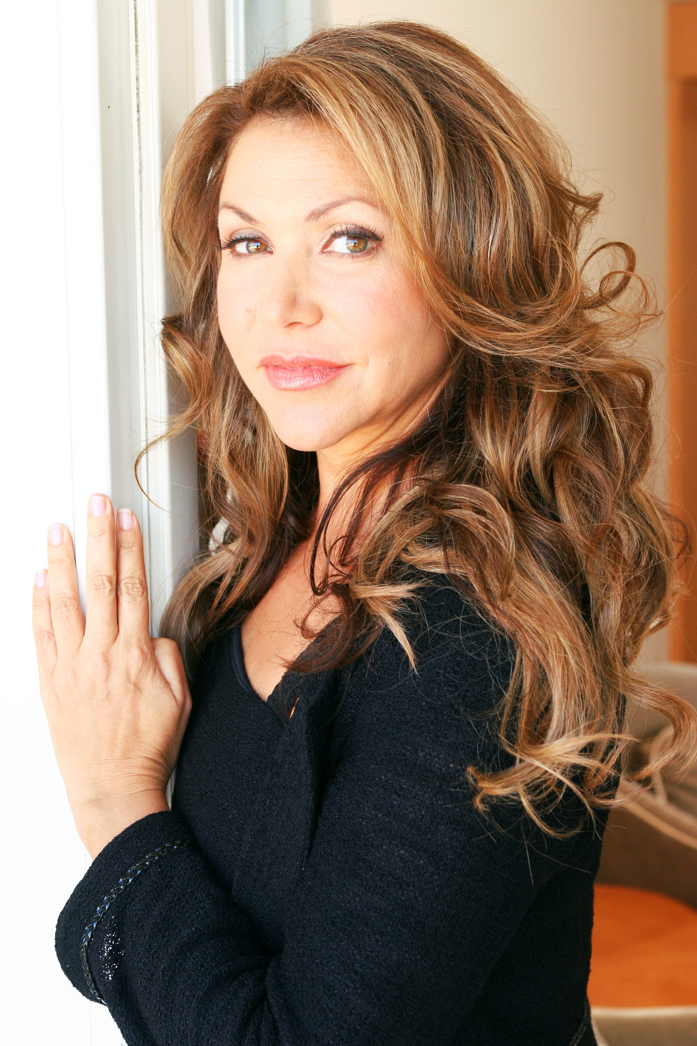 Sandra Espinet side shot black shirt